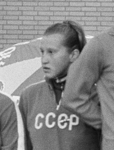 4x100 m medley podium, 1966 European Championships Natalya Mikhaylova